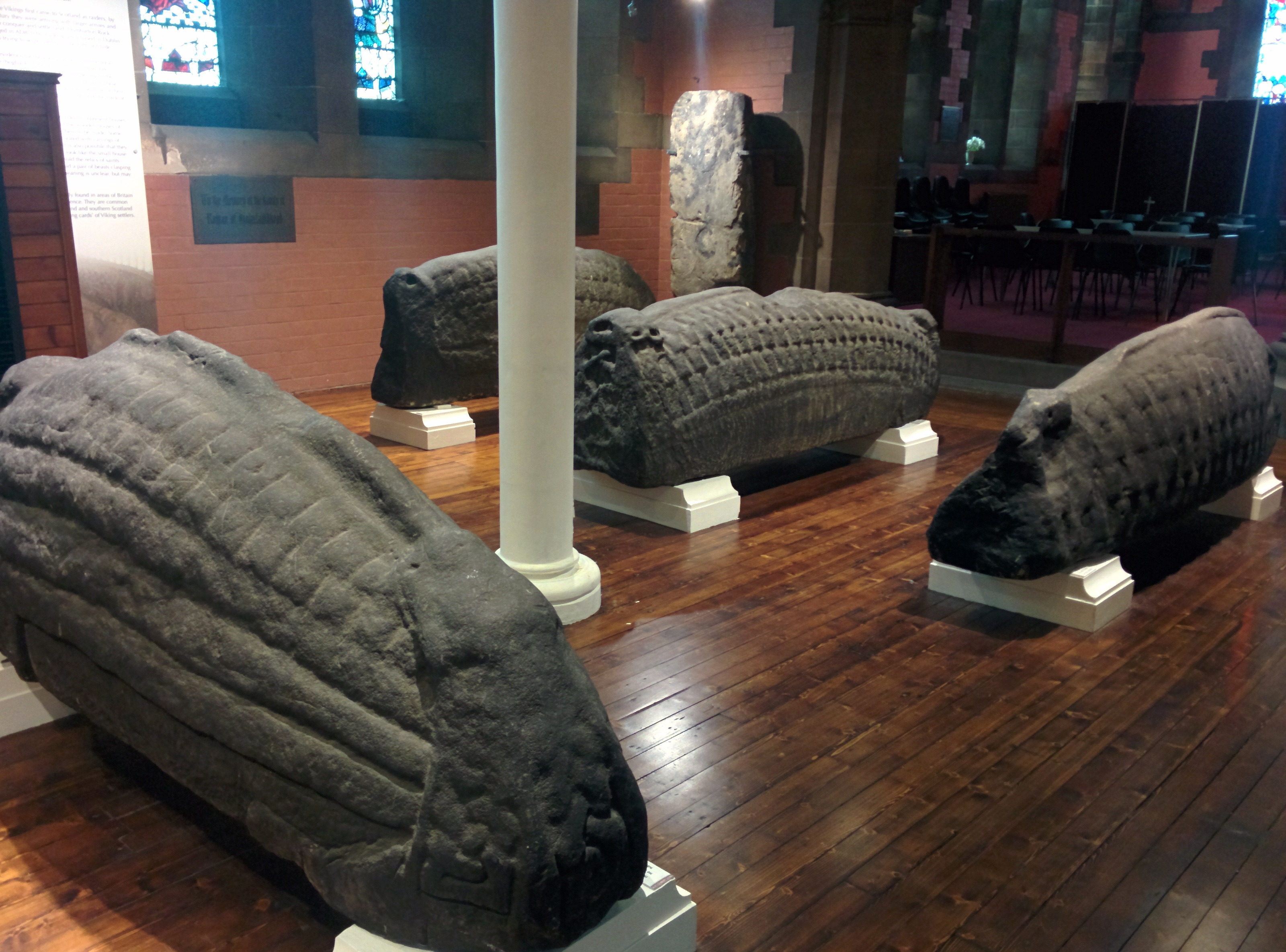 Govan, carved Viking hogsback stones